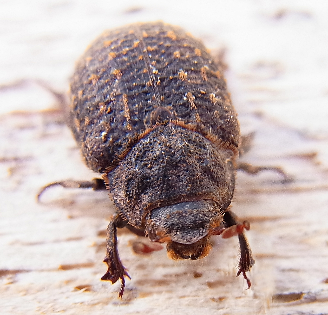 Trox sabulosus from Southern France near Belfast at 2013-04-15